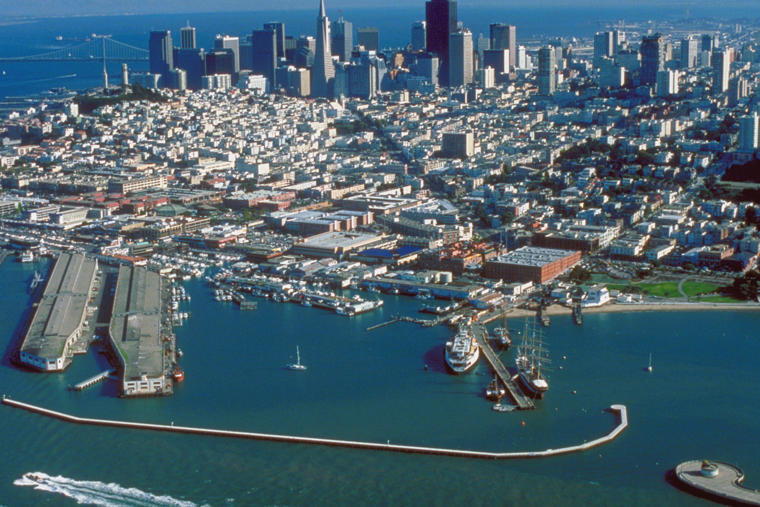 Aerial view of Fisherman's Wharf on San Francisco Bay on the north side of San Francisco, California, USA. View is to the southeast. Coordinates: 37°48′35.83″N 122°25′11.27″W / 37.8099528°N 122.4197972°W